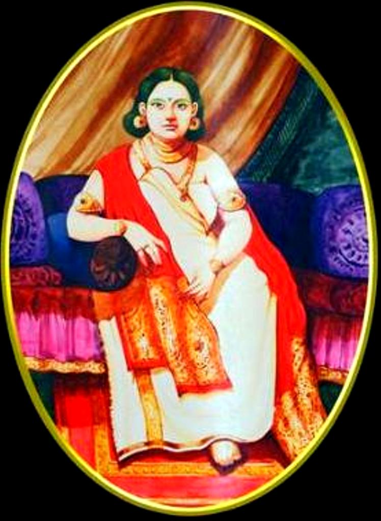 This is the portrait of Maharani Gowri lakshmi bayi who ruled Travancore on her own rights.